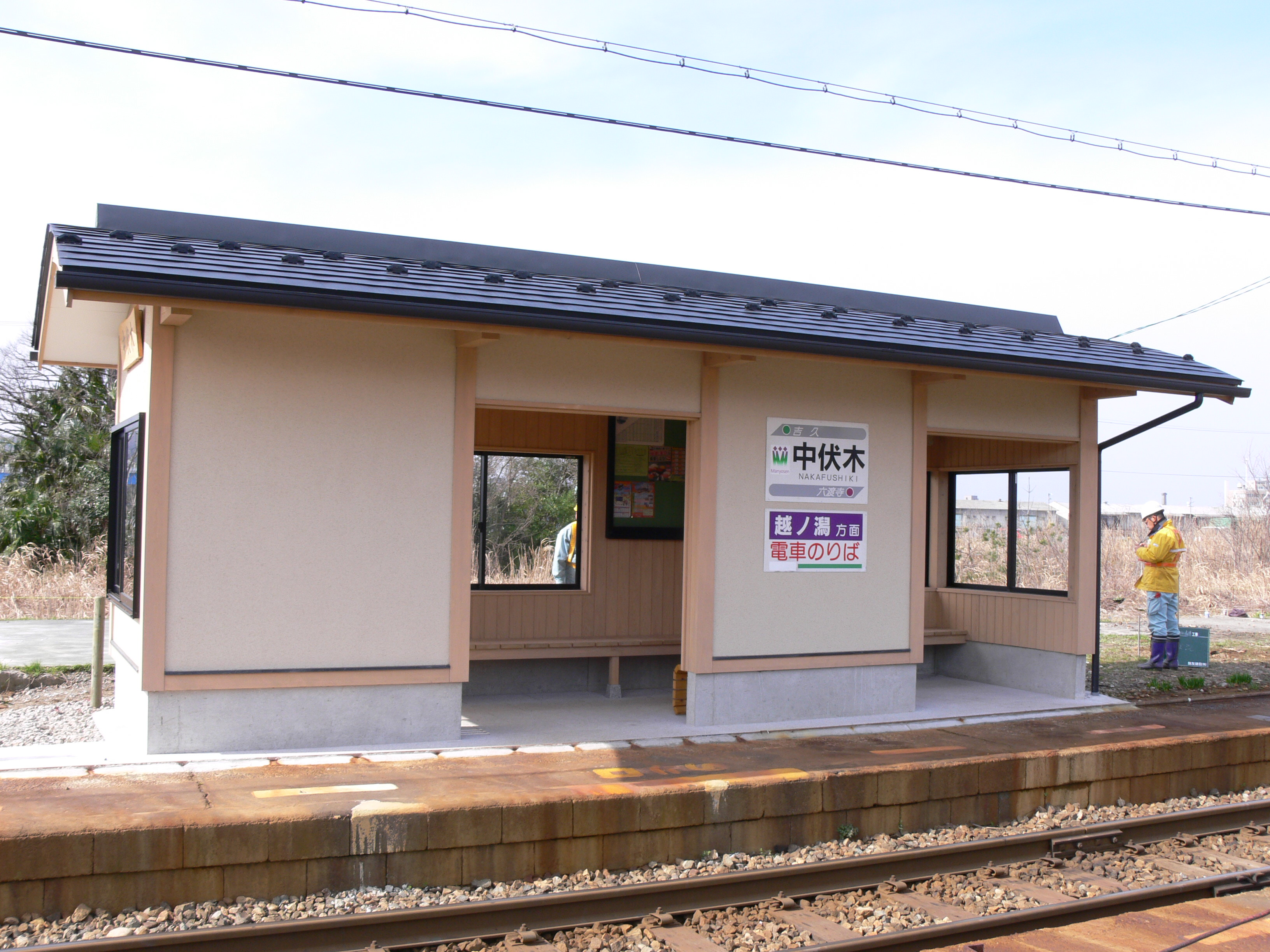 Manyo Line Nakafushiki Station